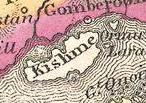 A fine example of S. A. Mitchell Sr.'s important c. 1850 map of Qeshm.